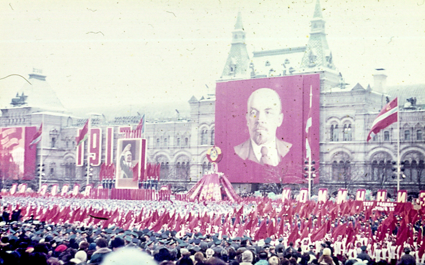 Official demonstration on 7 November 1977 on the Red Square in Moscow